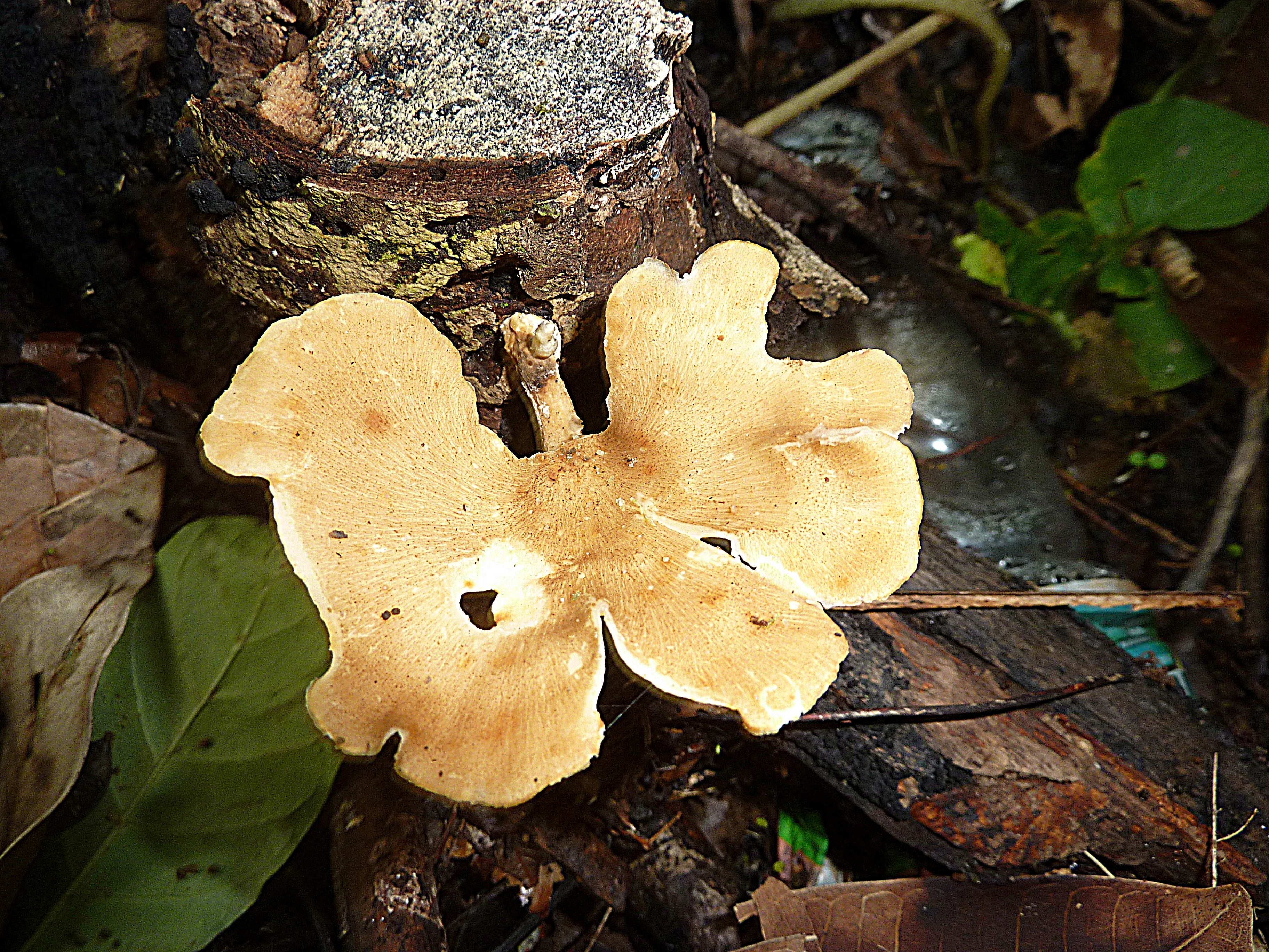 A fruit body of the polypore fungus Antrodiella versicutis; photographed in Gamboa, Balboa District, Panama Province, Panama.